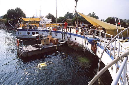 rov in harbor atoll photo Uwe Kils